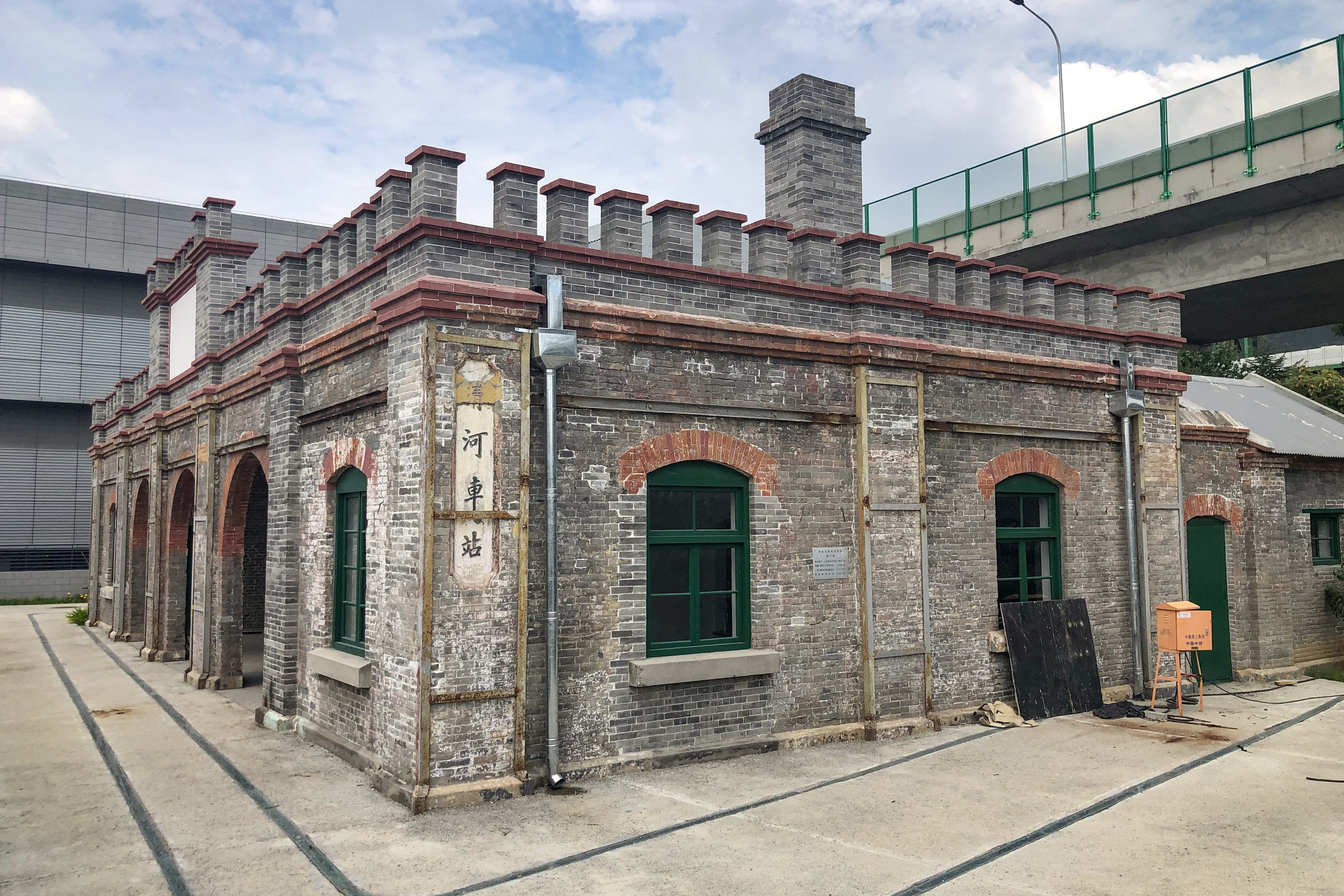 Restored at Anningzhuang Xisantiao Alley, southeast of the current station. Narrow space on its front, hard for photographing - but the side plaque has enough space.